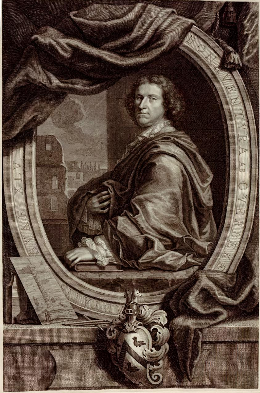 Bonaventura van Overbeek (inscribed: Bonaventura ab Overbeke, Etatis Suae XLV; J.C. le Blon pinx. C. Vermeulen sculps.); published in Les restes de l'ancienne Rome, 1709